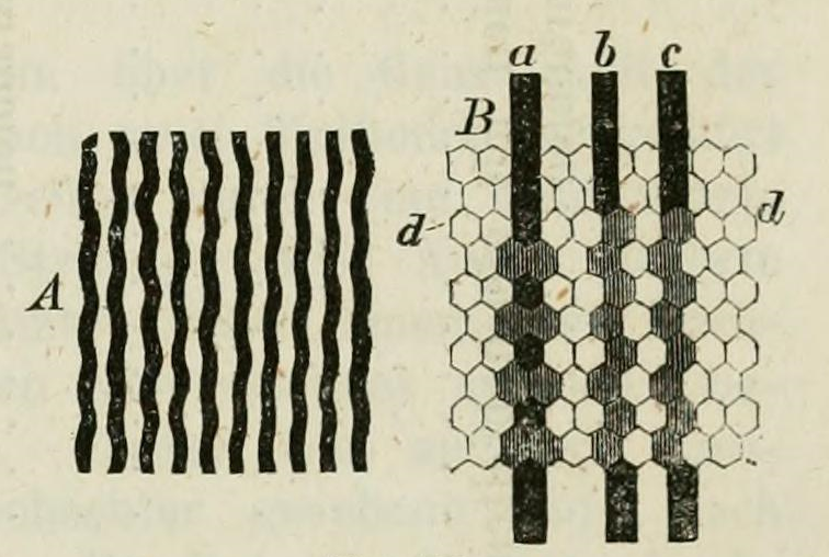 Helmholtz drawing of the appearance of high-frequency gratings, illustrating distortion in the appearance of the grating caused by aliasing